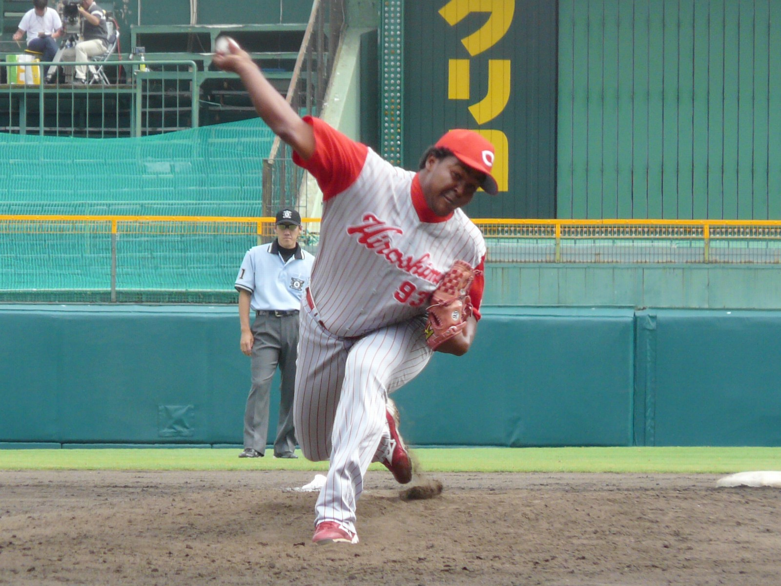 Copied from 画像:HC-Victor-Marte.jpg: "ビクトル・マルテ"